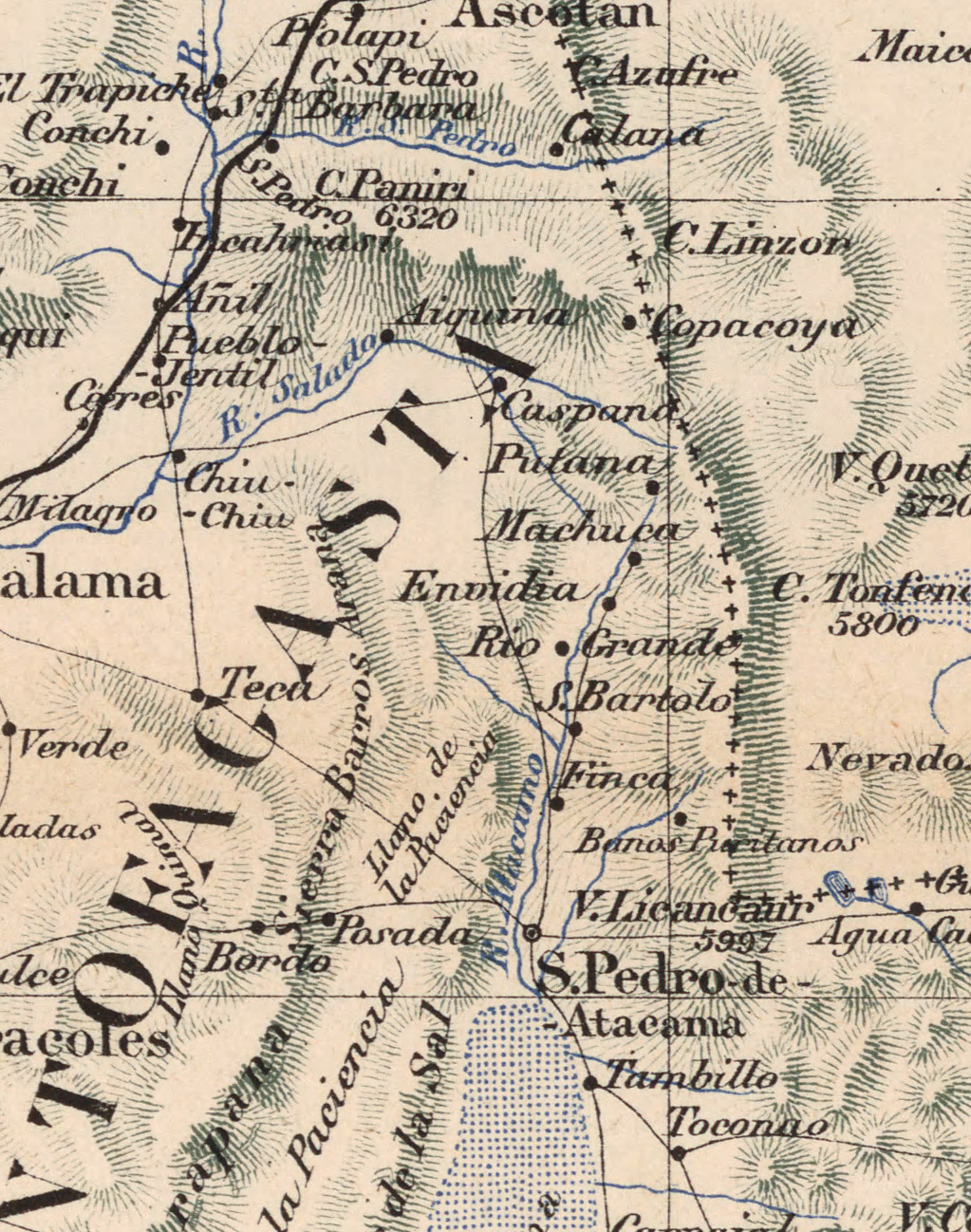 Sierra Barros Arana